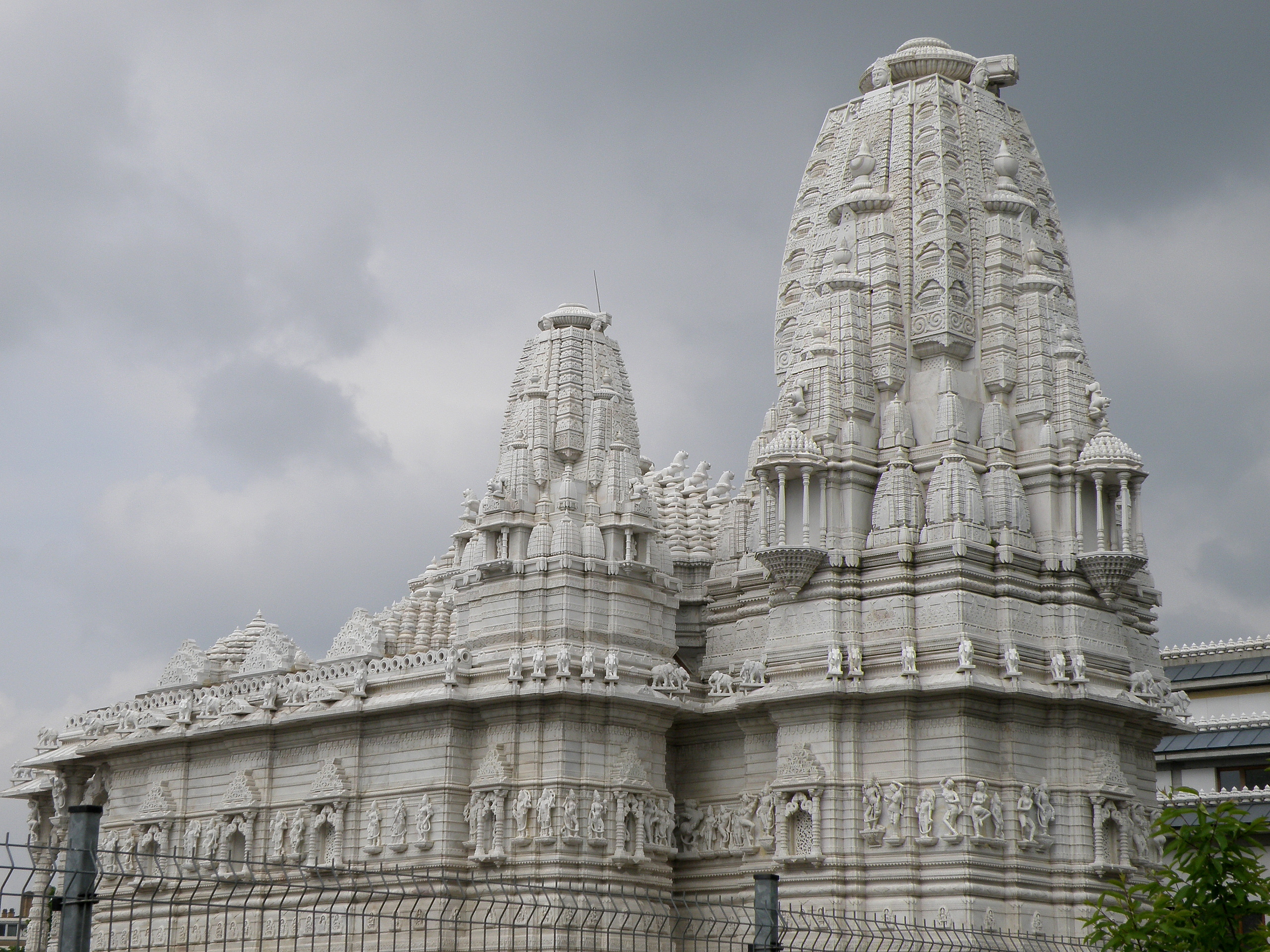 zsqertfg